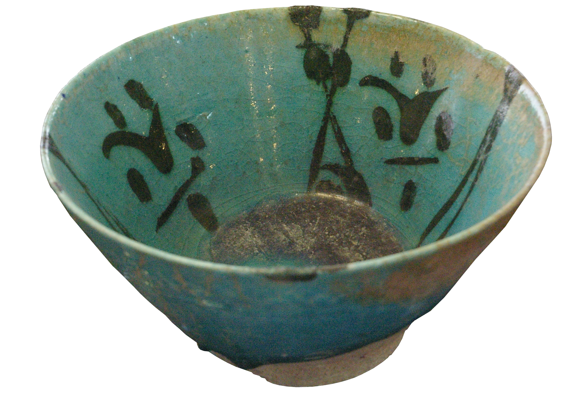 Ceramic, Gorgan 13th c. Azerbaijan Museum, Tabriz (Iran).